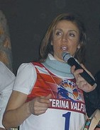 A shot with former italian skiers Paolo De Chiesa and Deborah Compagnoni (cropped)